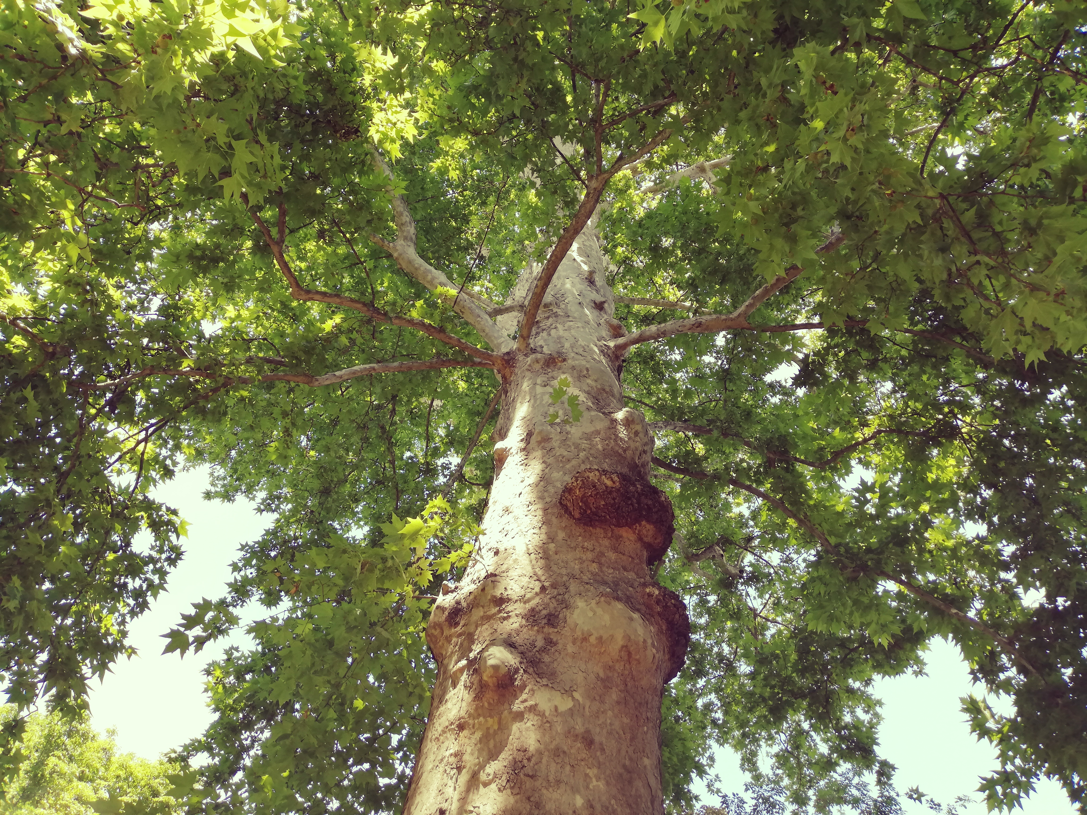 Platanus orientalis, Botanical gardens (University of Pavia)